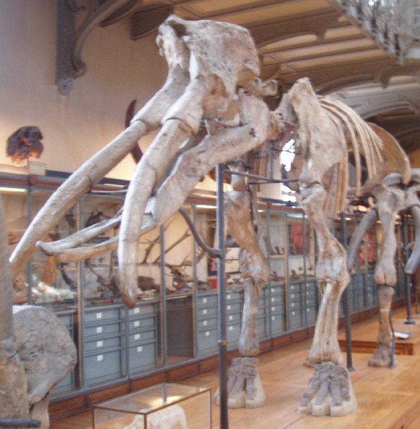 Skeleton of Archaeobelodon filholi, a Miocene proboscidean